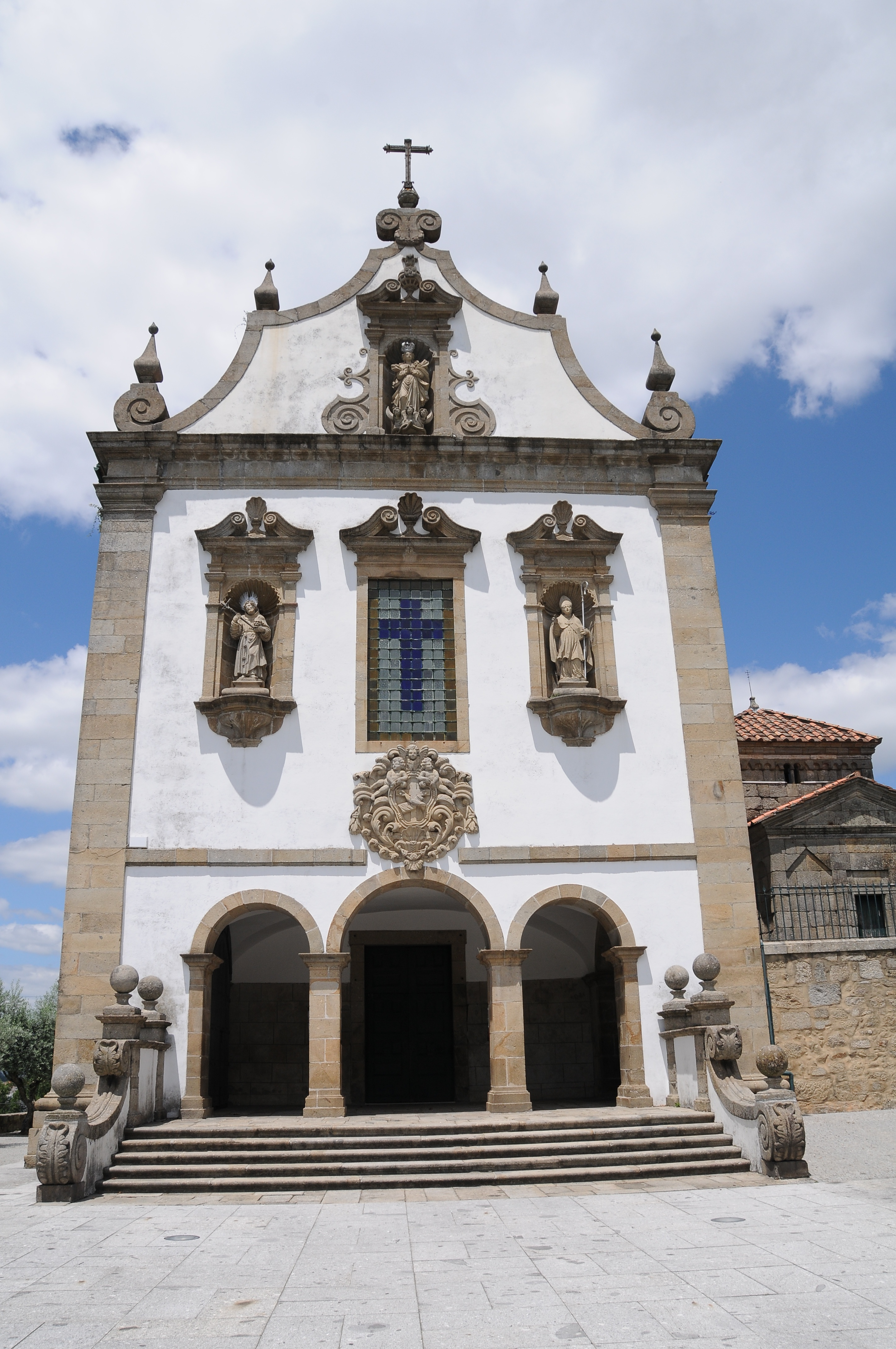 Real Church, in Real, Braga, Portugal. On the right side of the church, we can see the Saint Frutuoso Chapel